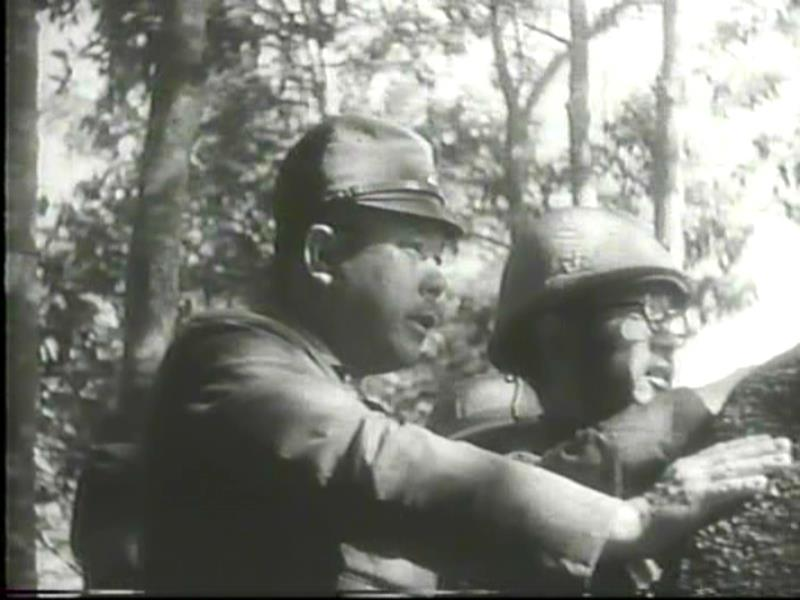 Tomoyuki Yamashita from Battle of Singapore.